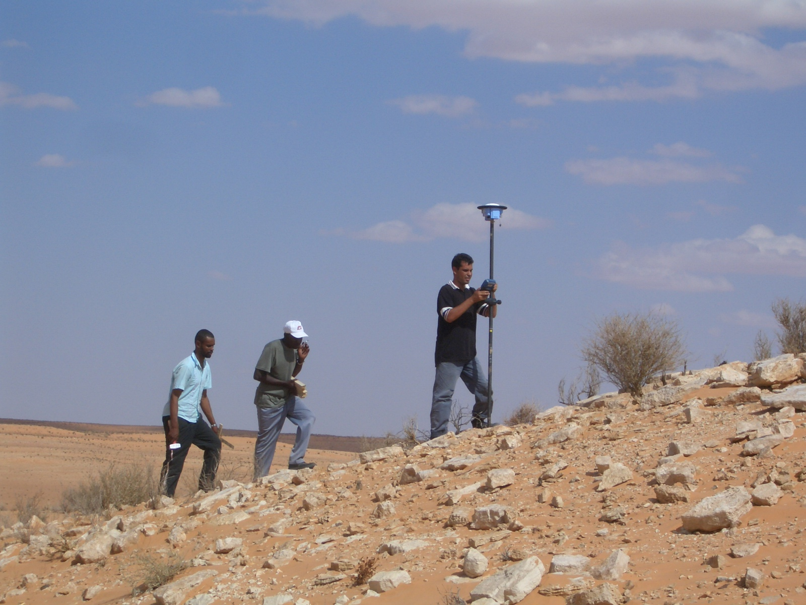 Seismic survey party using a pole-mounted Navcom SF-2040G StarFire GPS receiver.